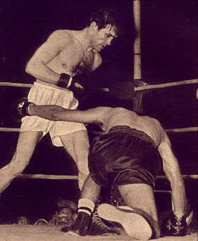 Pascual Perez (a. Pascualito), Argentine boxer. Flyweight Champion of the World (1954-1960), and Olympic Gold Medal at 1948 Summer Games (London). The picture shows the moment when Perez throw Shirai to the ground, during the World Championship fight.